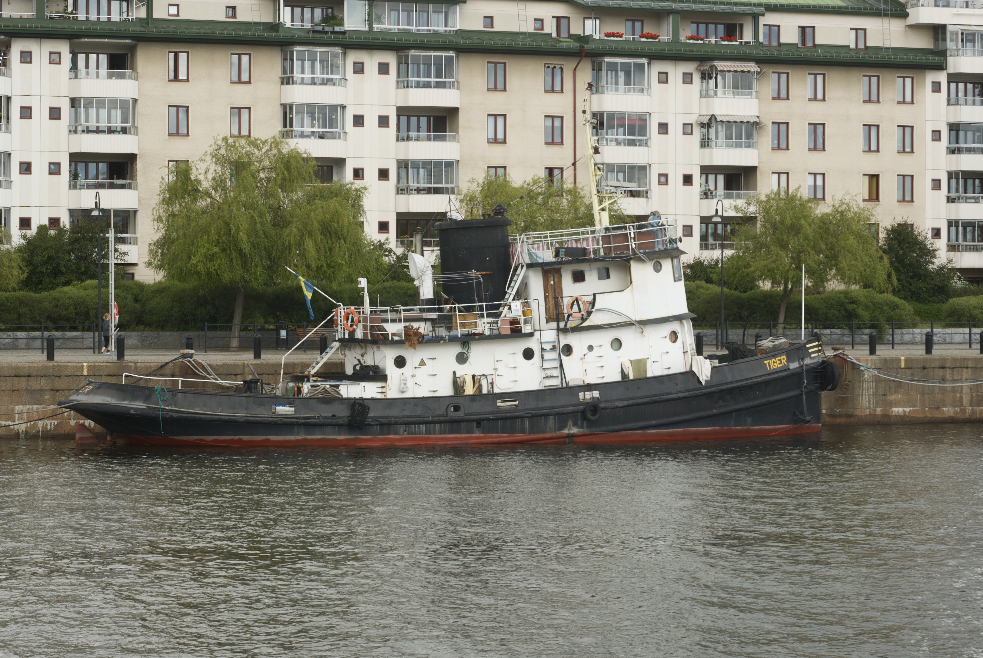 MS Tiger June 2011